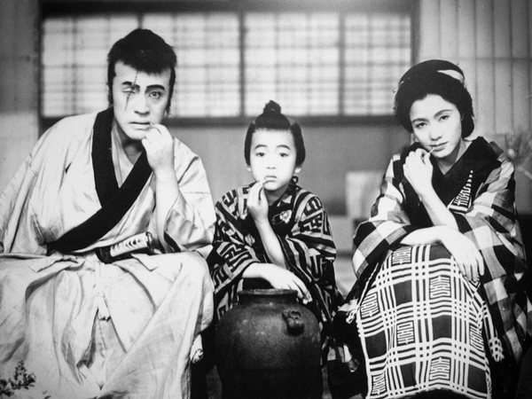 From left to right: Denjirō Ōkōchi, Sō Shuntarō (宗春太郎) and Kiyozō Shinbashi in Tange Sazen yowa : Hyakuman-ryō no tsubo (丹下左膳余話 百萬両の壺) directed by Sadao Yamanaka - 1935